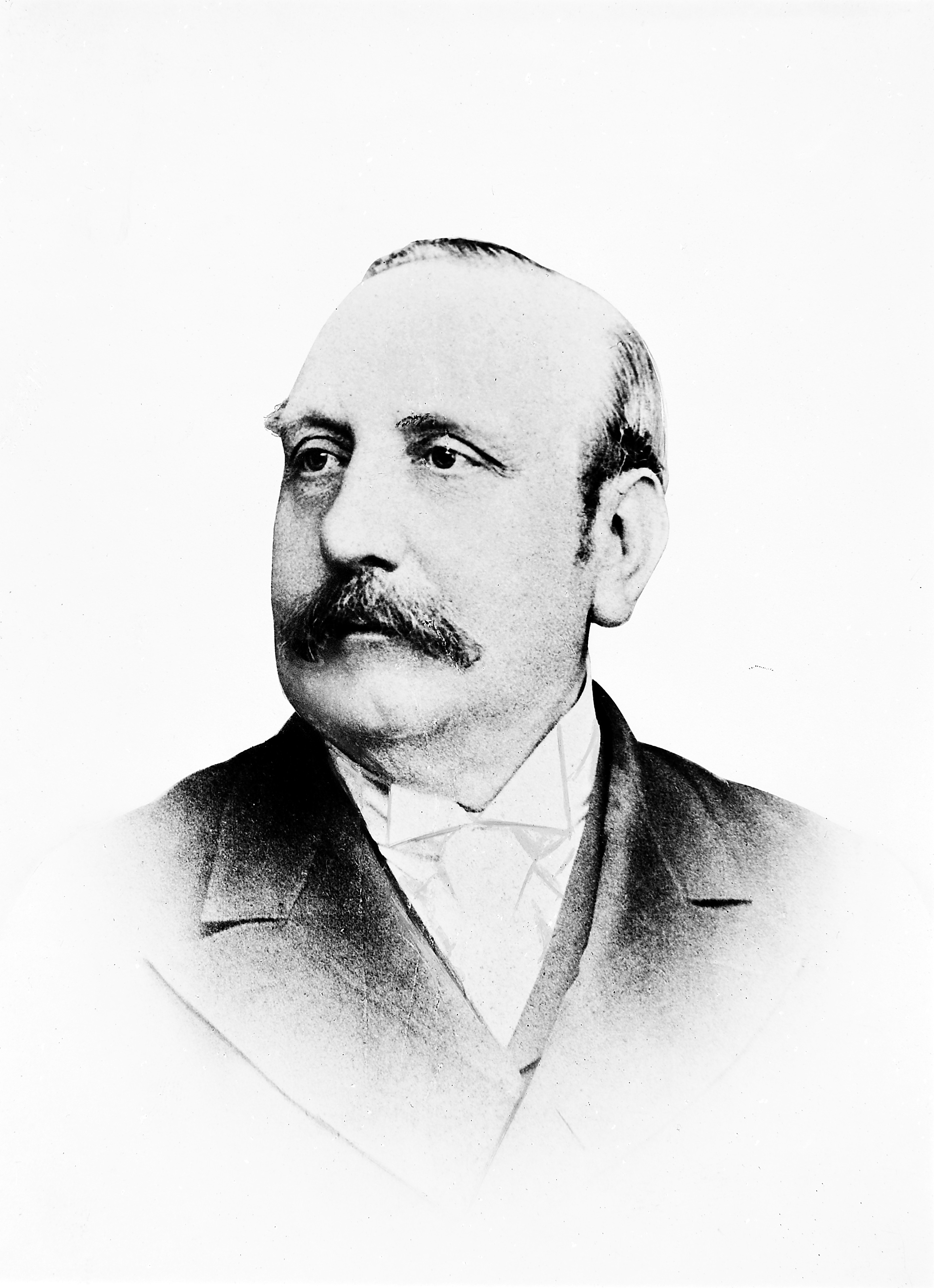 Sir Patrick Heron Watson. Photograph. Wellcome states: Photograph From: History of Scottish Medicine By: Comrie, John volume II page 676 Available here